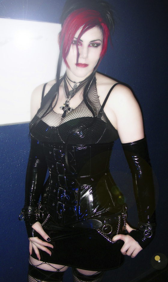 Midnight Fallen, Goth girl, San Francisco, 2008